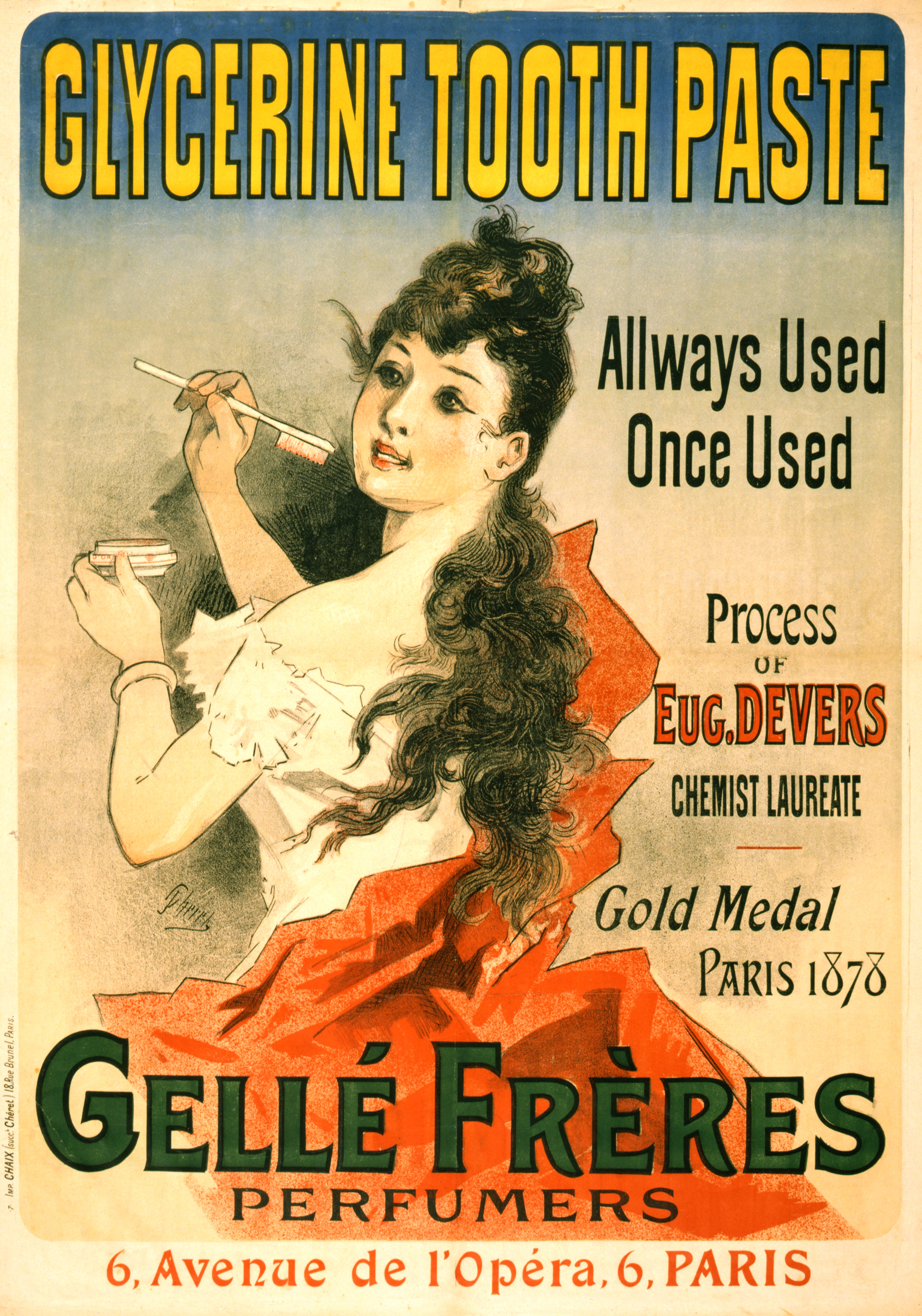 Gellé Frères perfumers 6, Avenue de l'Opéra, 6, Paris